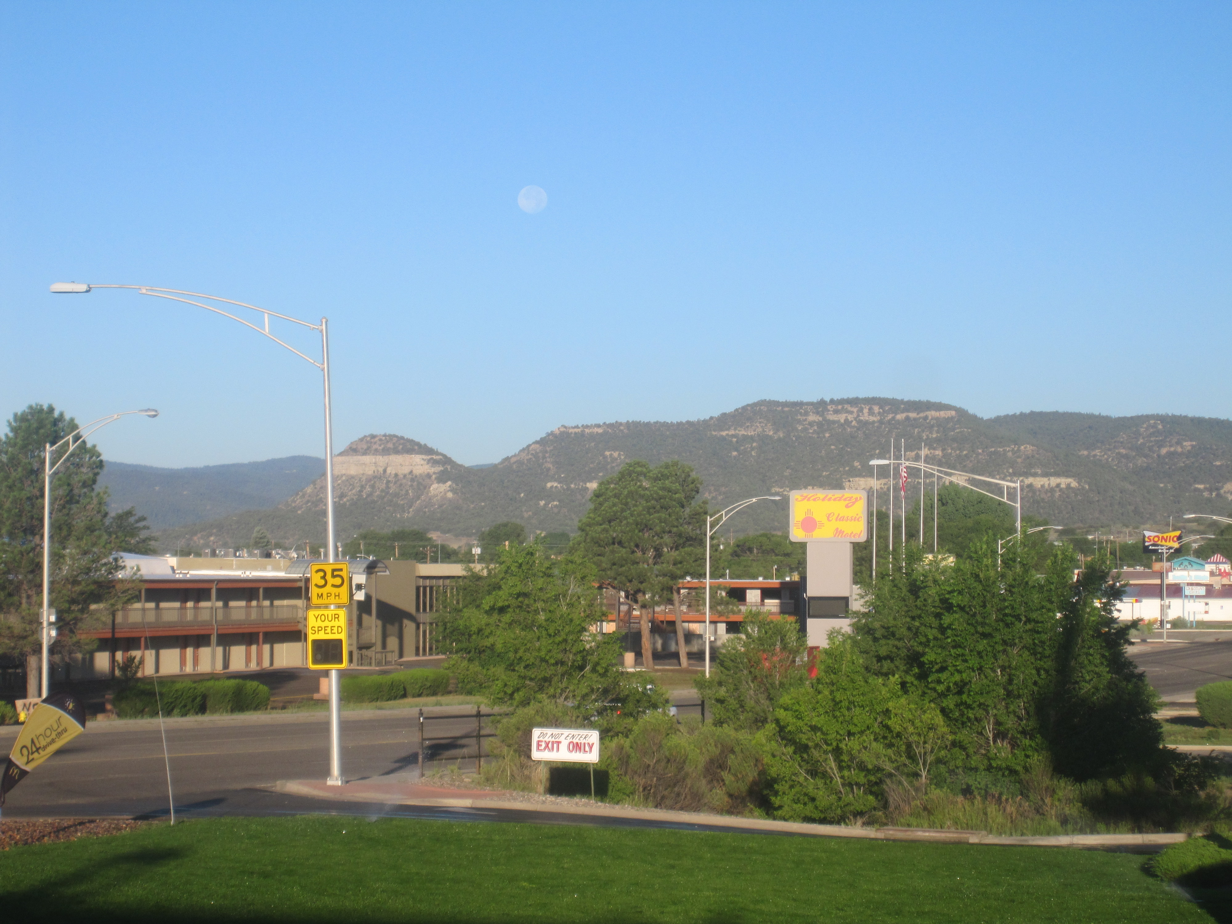 I took photo in Raton, NM, with Canon camera.